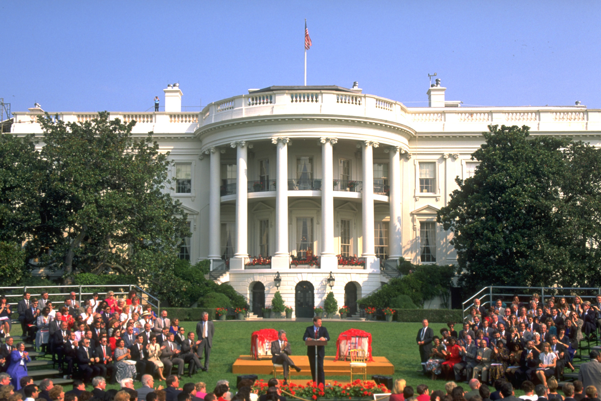 President Bill Clinton with Vice President Al Gore Present National Performance Review Awards for the Reinventing Government initiative, in June 1994.